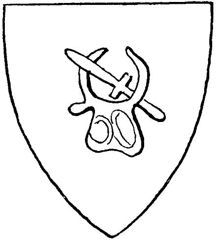 Coat of arms Pomian from the seal of Chebda, 1306